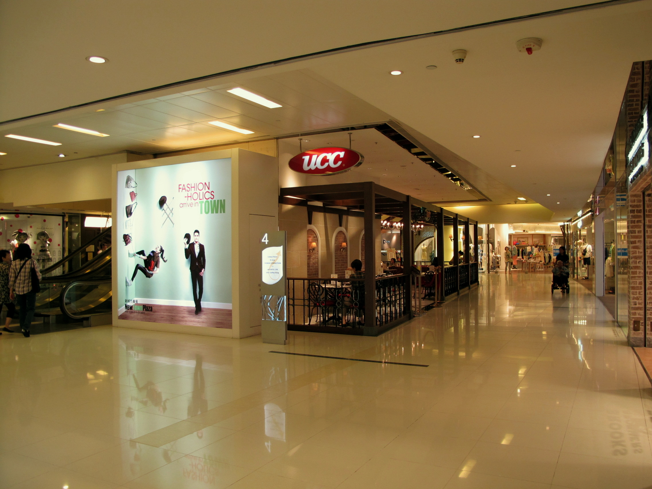 New Town Plaza Level 4